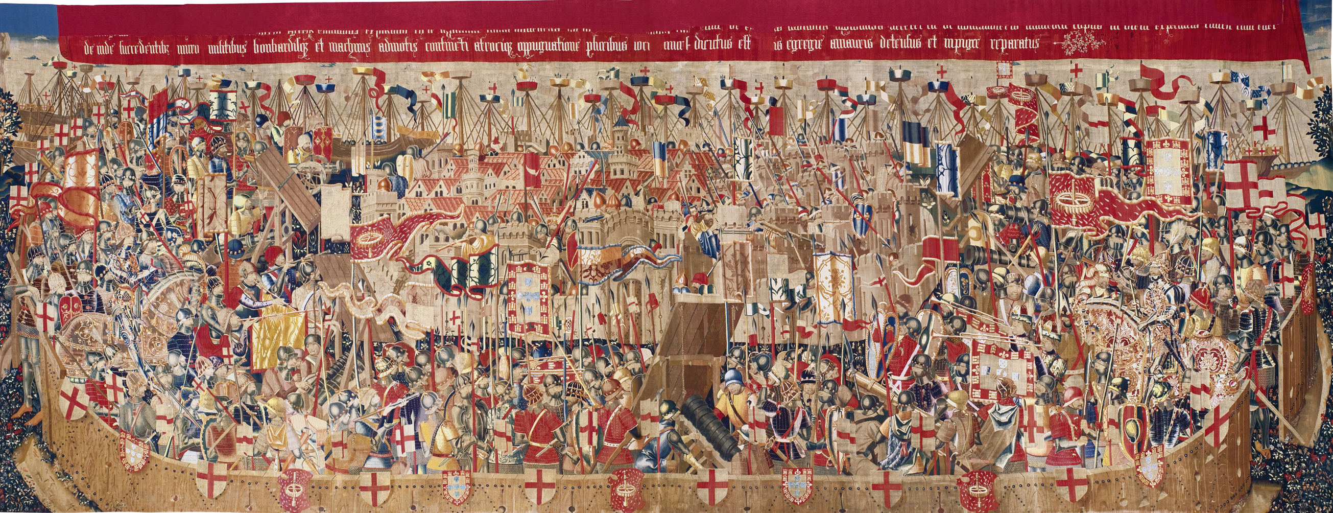 Siege of Asilah, one of the famous Pastrana Tapestries.